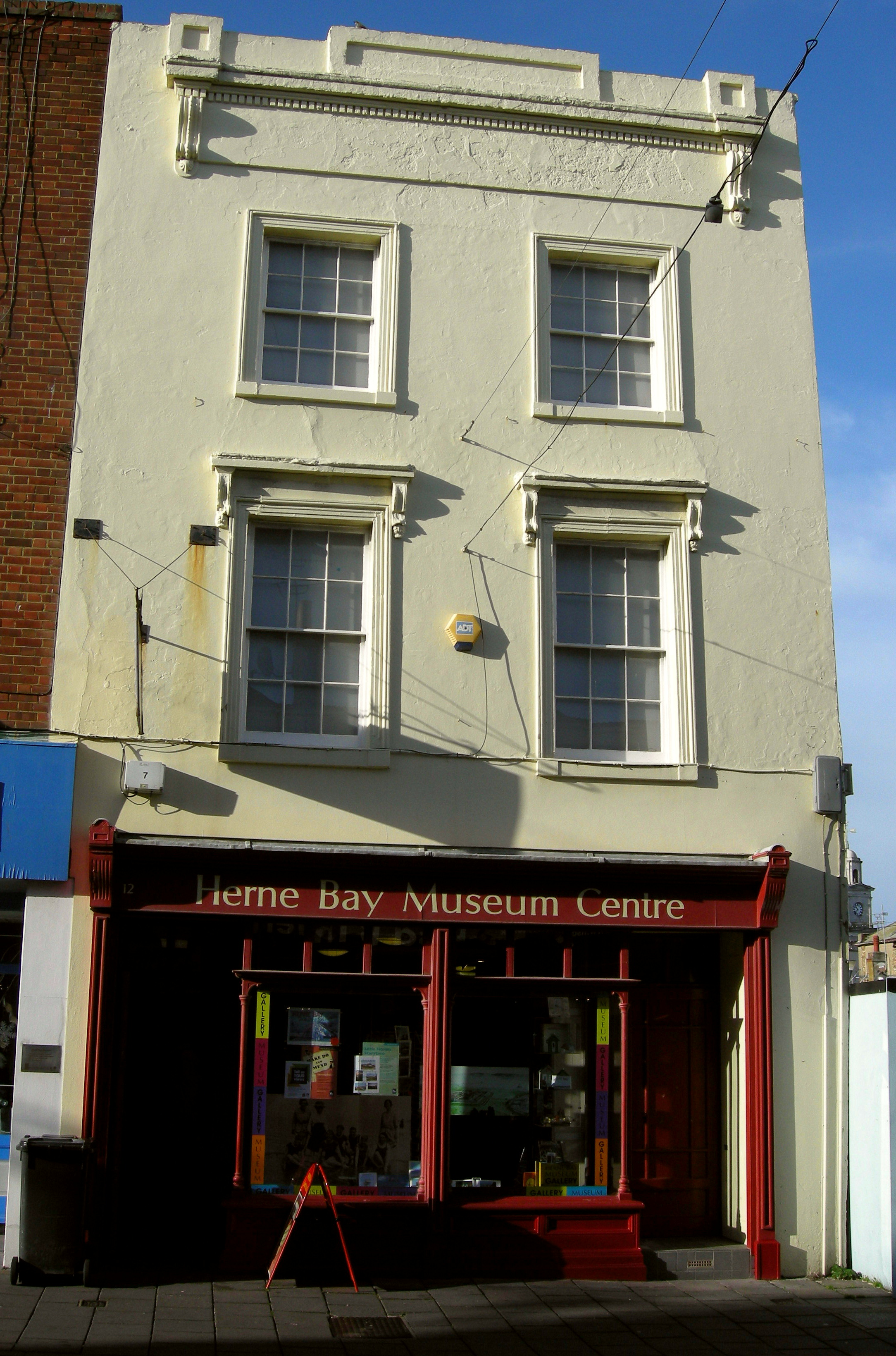 Herne Bay Museum and Gallery frontage